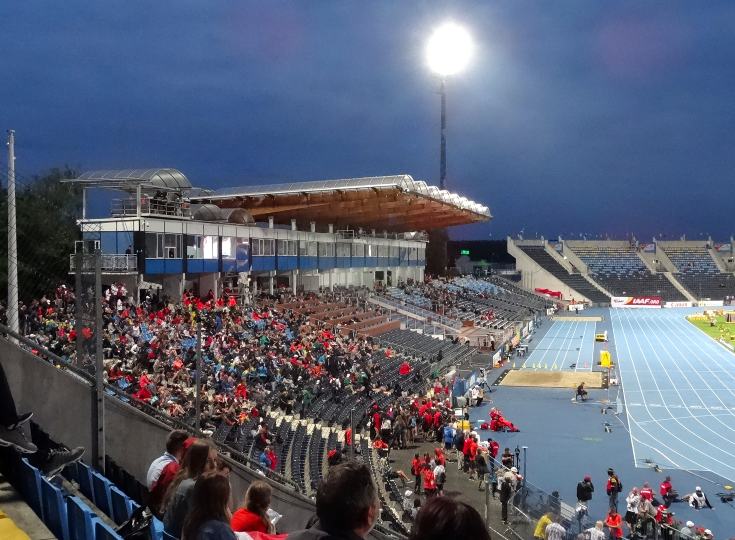 2016 World Junior Championships in Athletics in Bydgoszcz